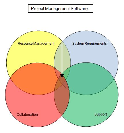 Dimensions for PM tools selection